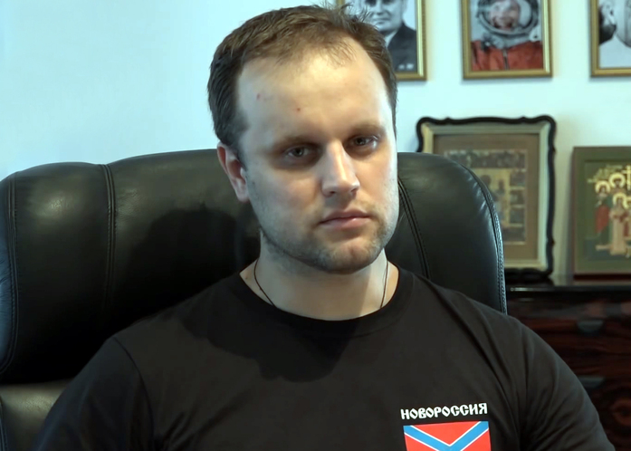 Pavel Gubarev, August 5, 2014.